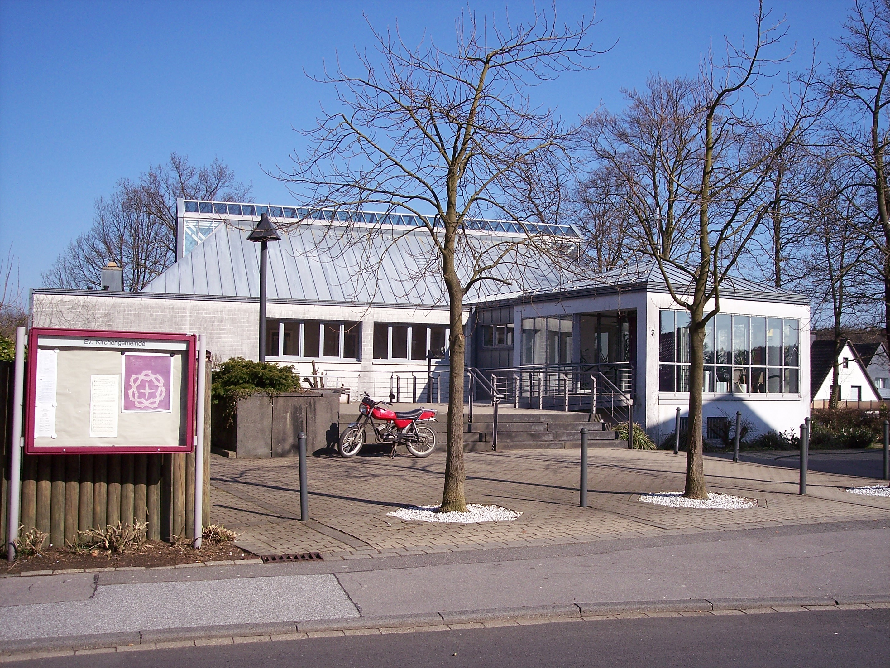 Lüdenscheid, Lösenbach Church